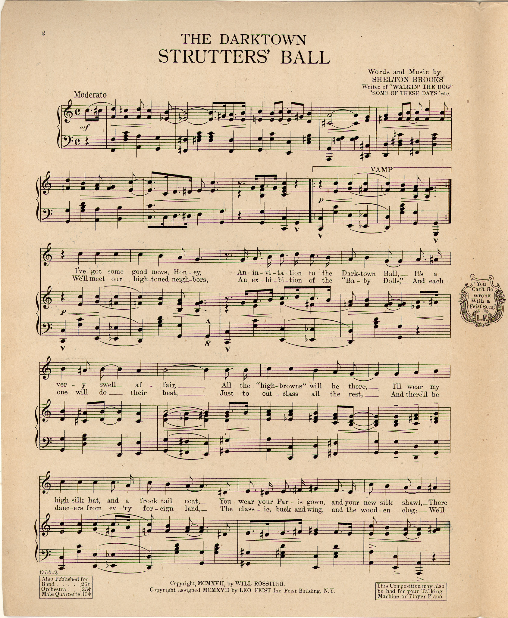 Sheet music of Shelton Brooks's "Darktown Strutters' Ball", page 1 of 2.